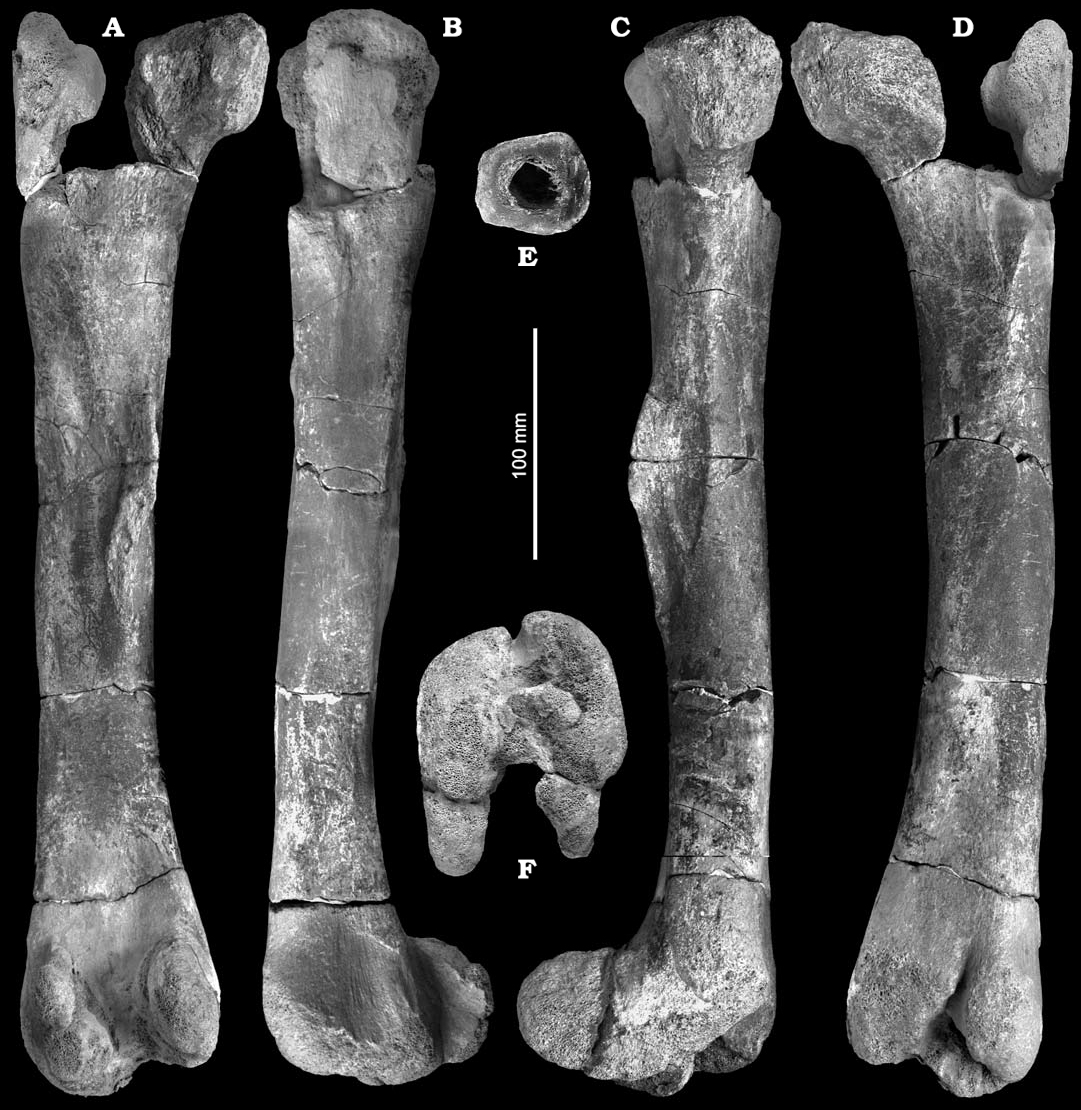 Left femur of cf. Iguanodontidae gen. et sp. indet. (Ornithischia, Ornithopoda), IGP MZHLZ/2003/1, in posterior (A), lateral (B), medial (C), ante− rior (D), and distal (F) views, with transverse cross−section through the femoral shaft (E).